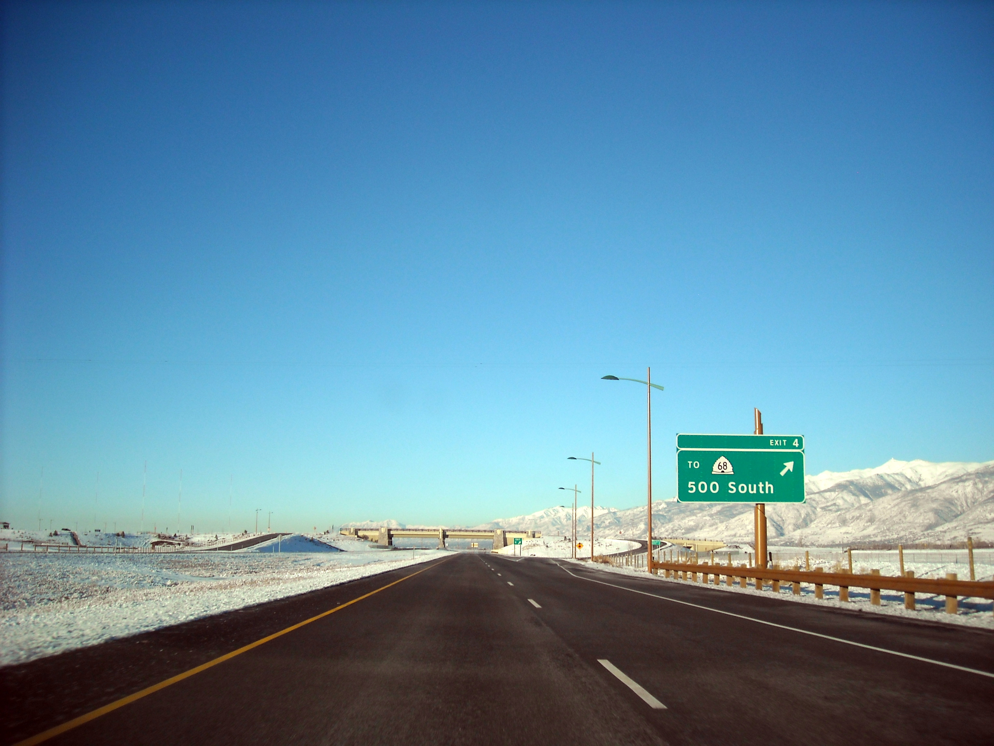 Legacy Parkway at exit 4, SR-68